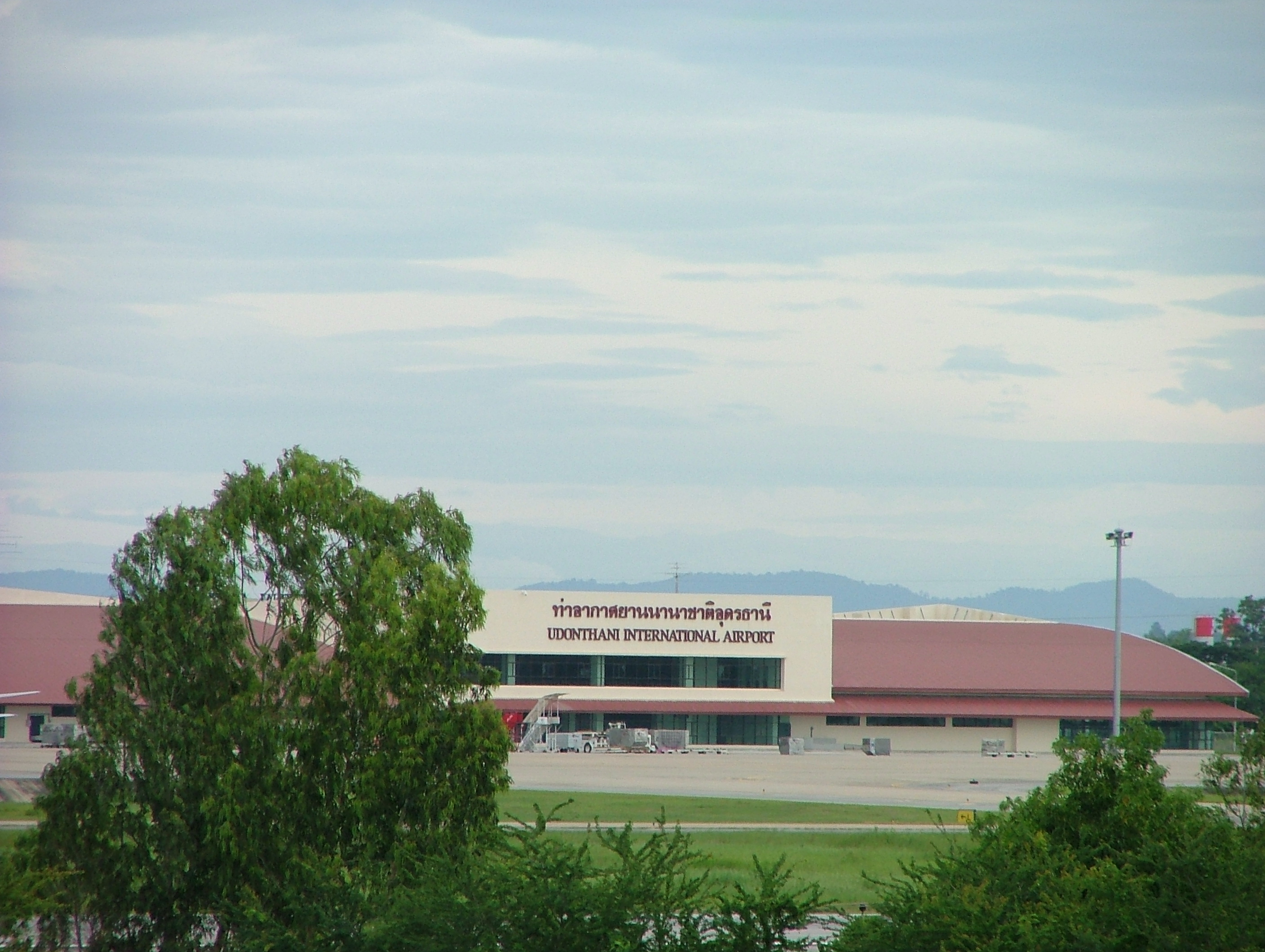 Terminal building, Udon Thani International Airport